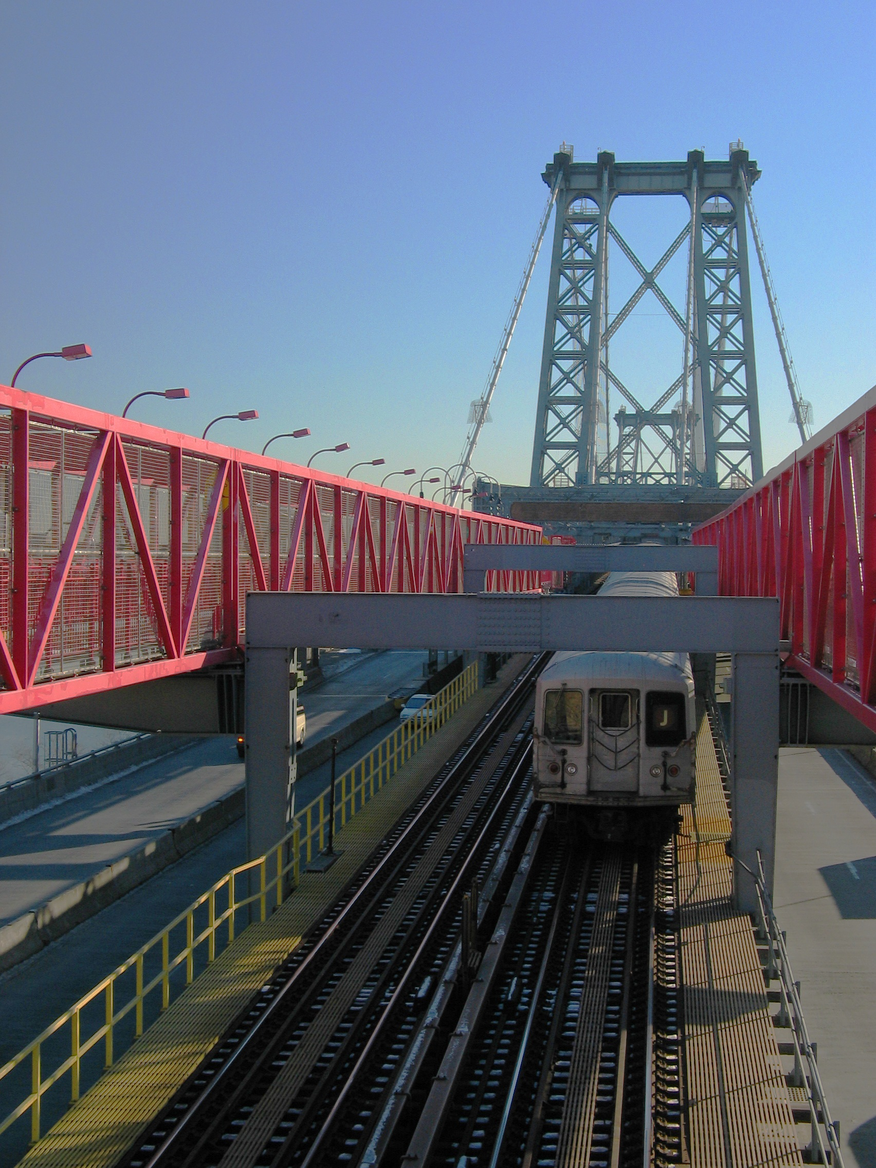 J train on Williamsburg Bridge, New York.